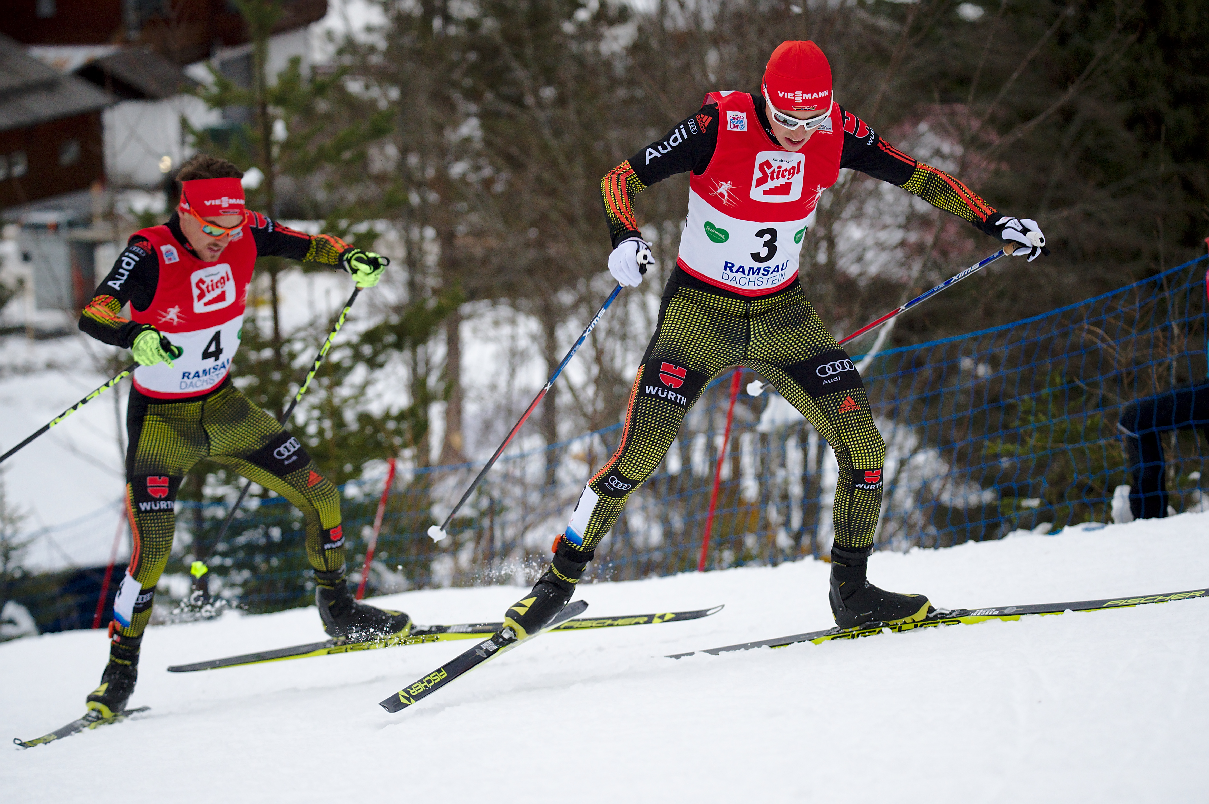 Eric Frenzel (GER), Bib 3